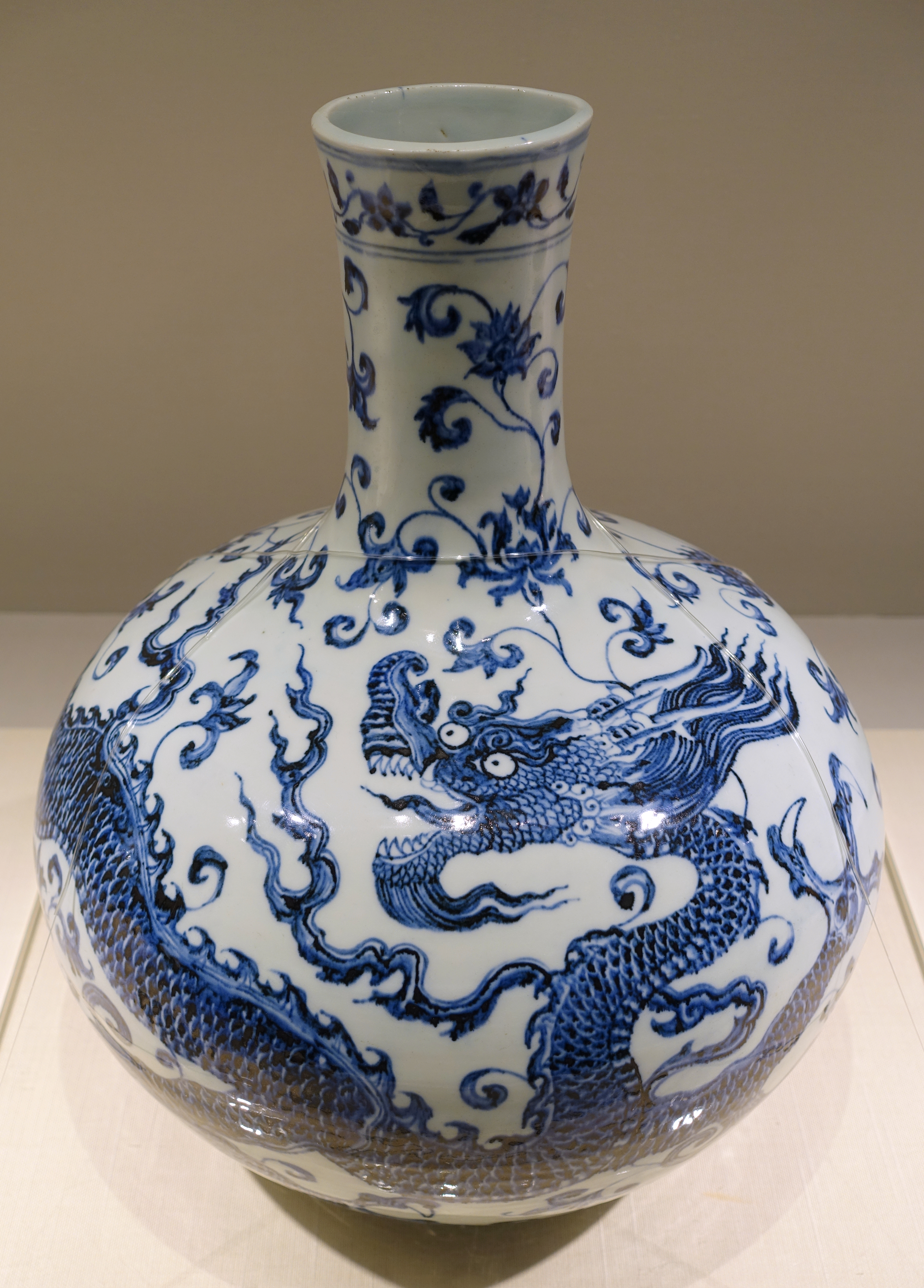 Exhibit in the Matsuoka Museum of Art - 5 Chome-12-6 Shirokanedai, Minato, Tokyo 108-0071, Japan.